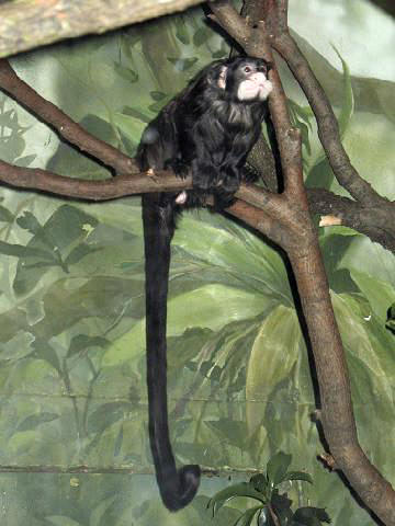 Description: Spix's Moustached Tamarin - Source: own work - Location: Bronx Zoo, New York - Author: self, User:Stavenn